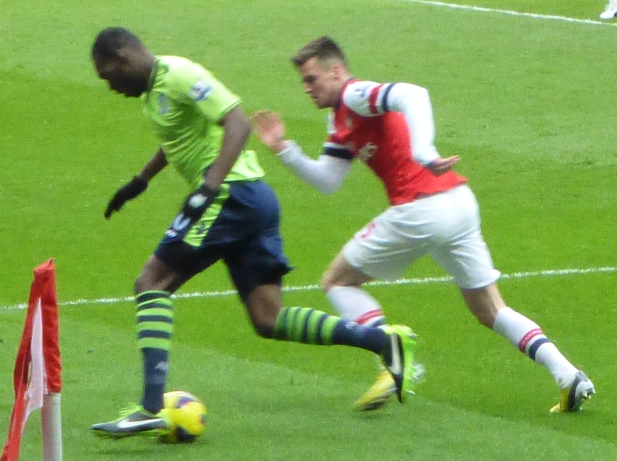 Benteke of Aston Villa dribbling against Carl Jenkinson of Arsenal